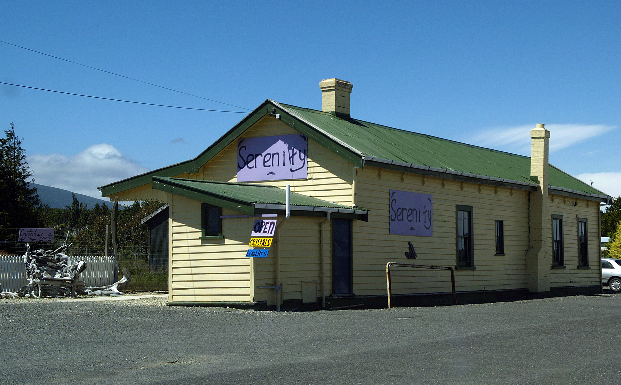 Old Railway Station Building in Tuapatere, Southland, New Zealand